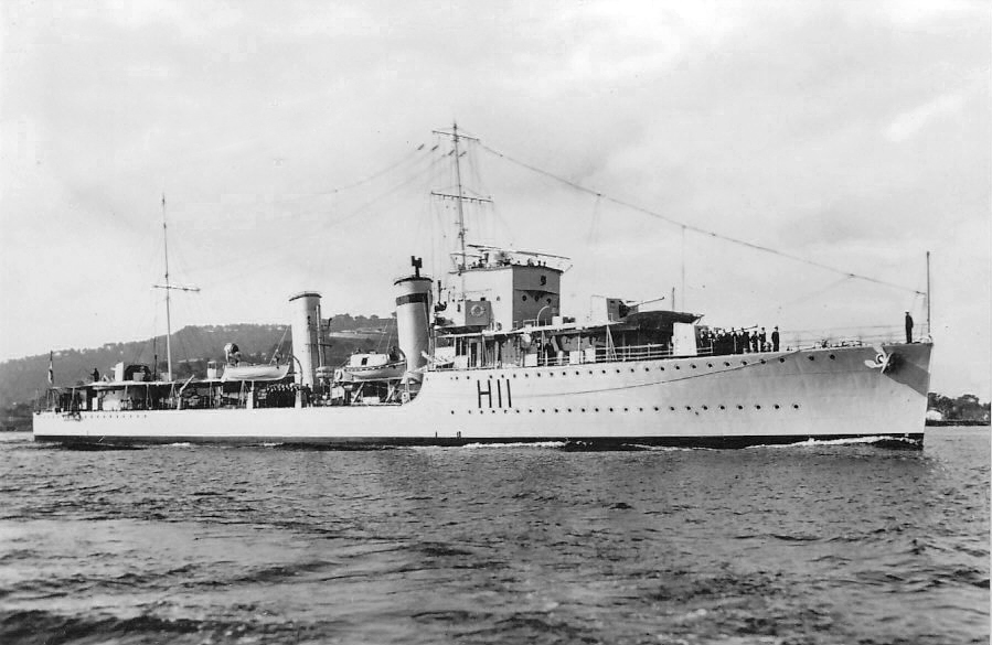 The Royal Navy destroyer HMS Basilisk (H11) in the Mediterranean Sea, 21 October 1937.